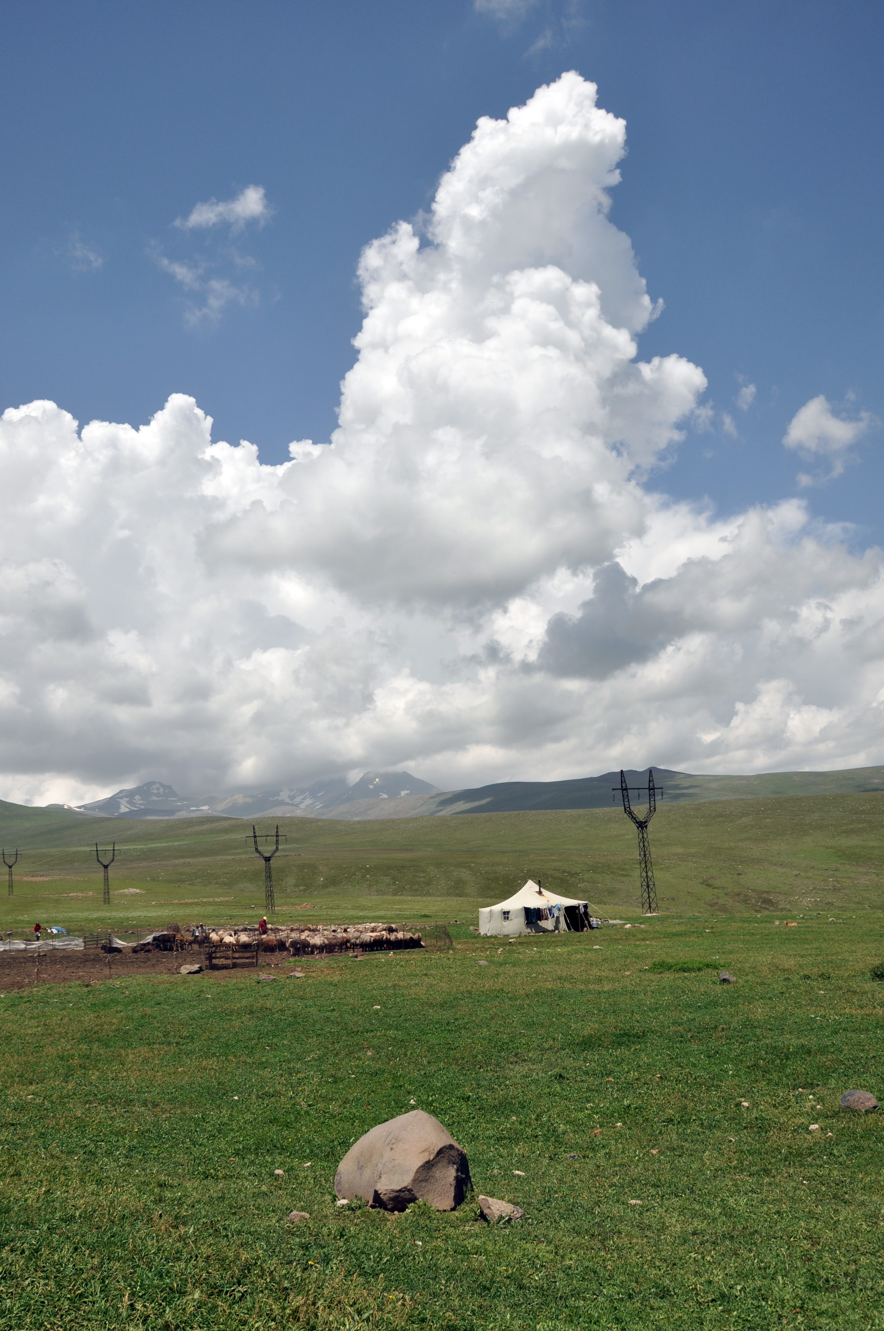 Yezidi Kurds in the mountains of Armenia. Pretty impressive as far as non-/semi-permanent settlements go, with paddocks for their herds and all.